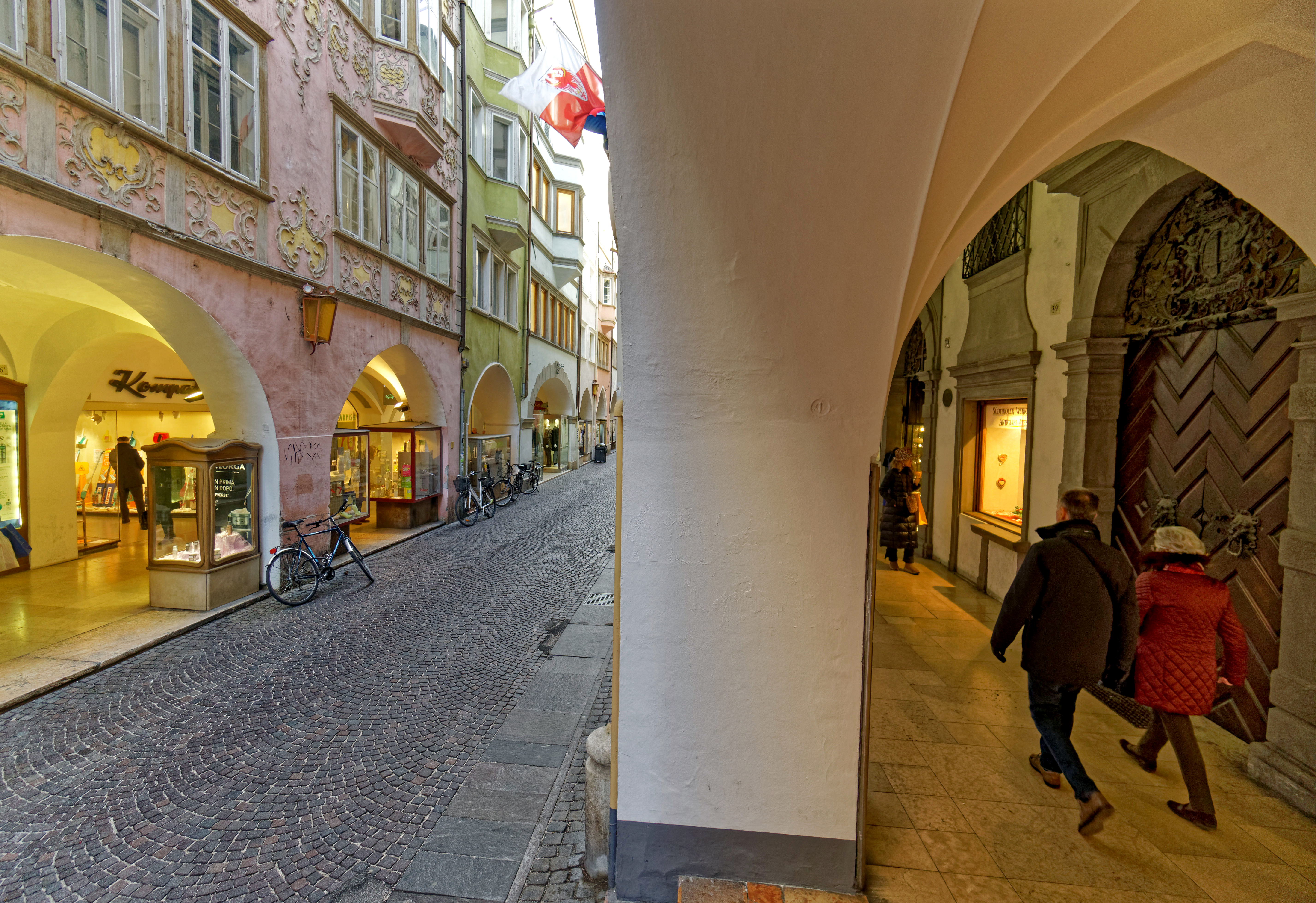 The arcades of Bolzano in South Tyrol.